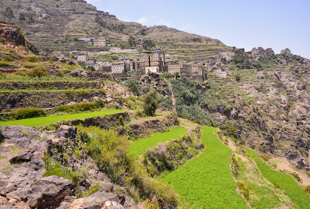 Hiking in the Haraz Mountains, Yemen